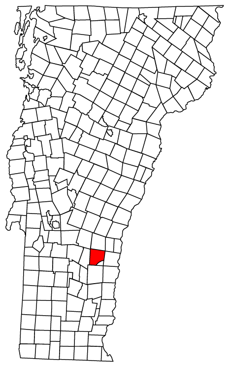 Map of Vermont towns with Cavendish highlighted